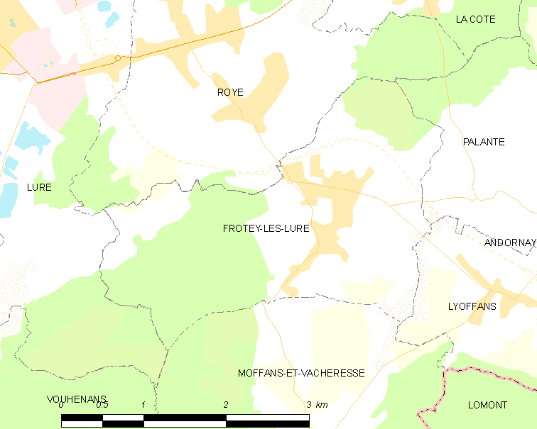 Map of French municipality